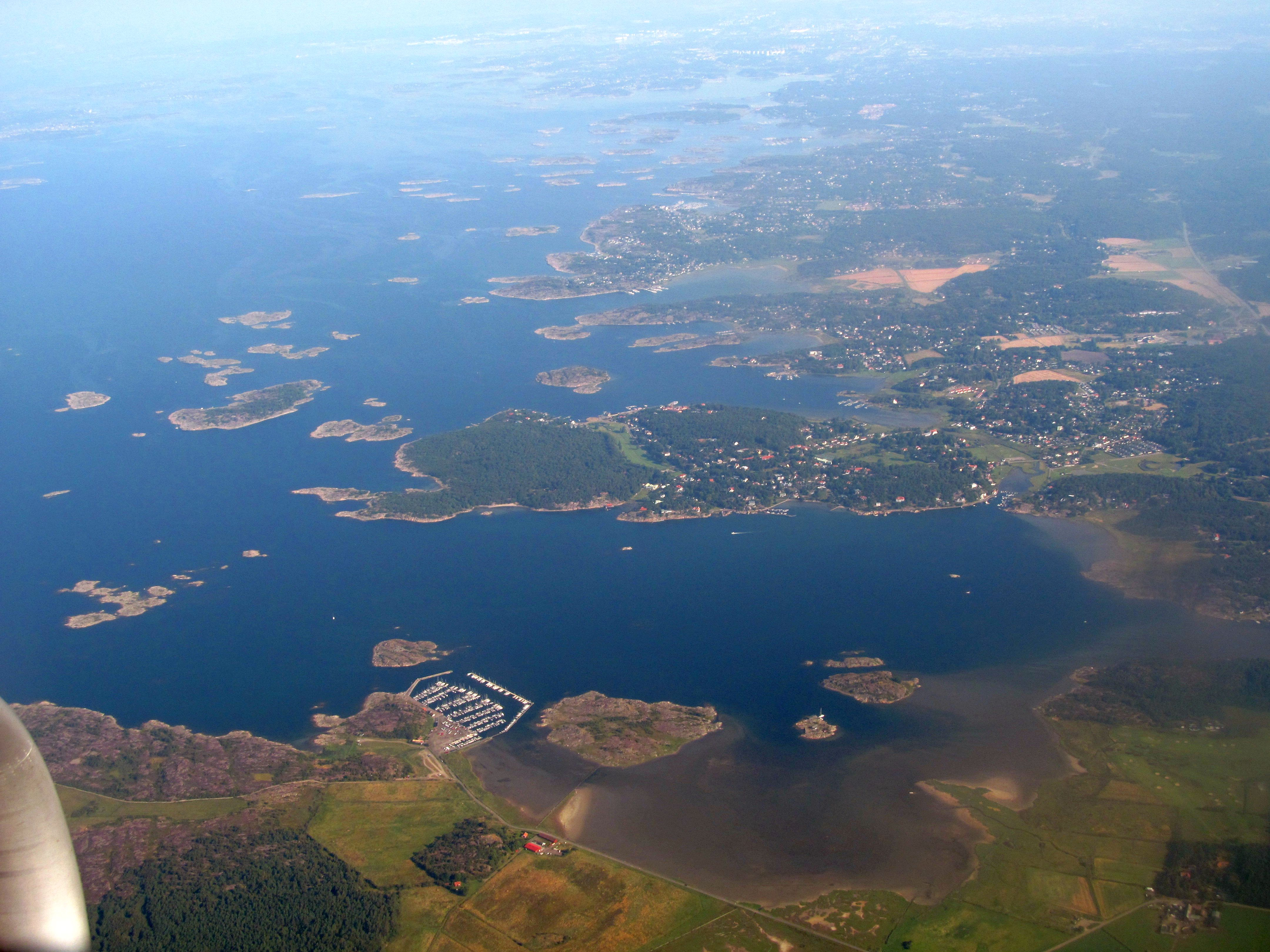 Aerial view of Särö peninsula, showing Särö Västerskog nature reserve and the surrounding settlements